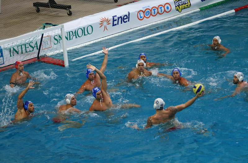 Serbia-Greece